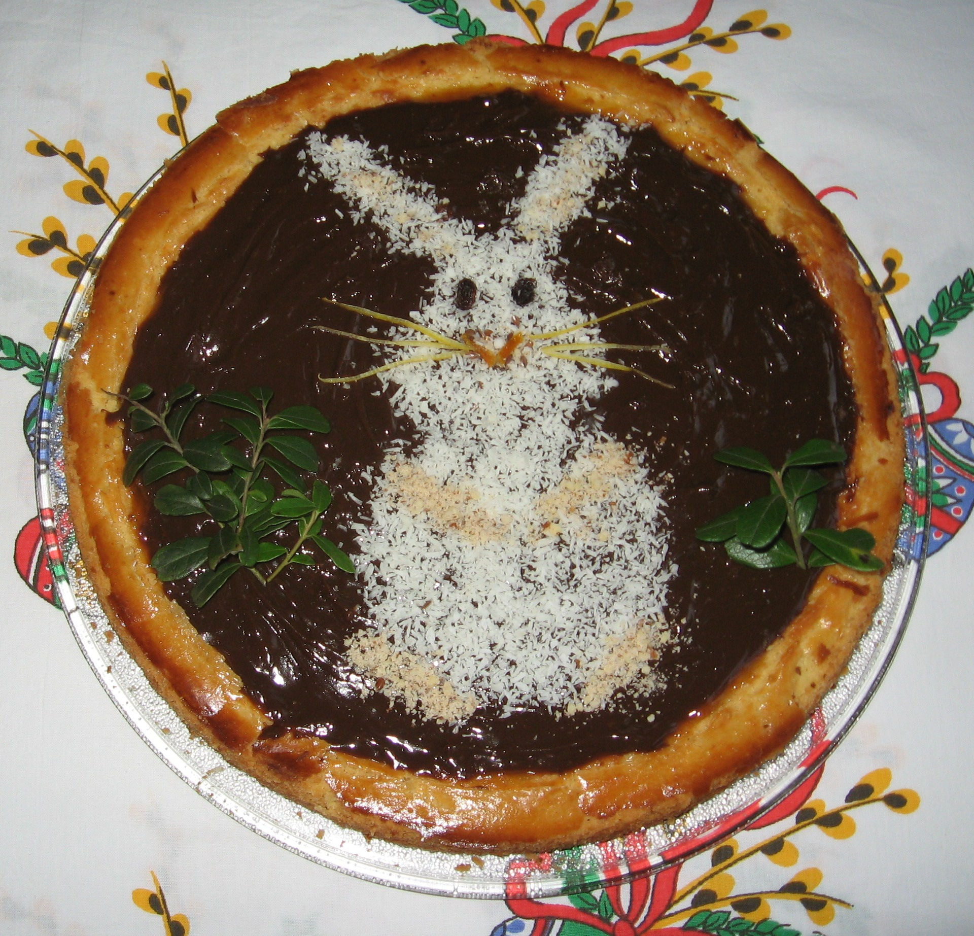 Mazurek made of shortcrust pastry, covered with fudge caramel cream (with cocoa). A bunny made of coconut shreds and grated almonds. The eyes - raisins, the moustaches - lemon zest, the nose - candied orange peel, the snout was sprinkled with linseed. Twigs of cranberry or buxus. The crust was glazed with chicken egg yolk. Made in Poland :).